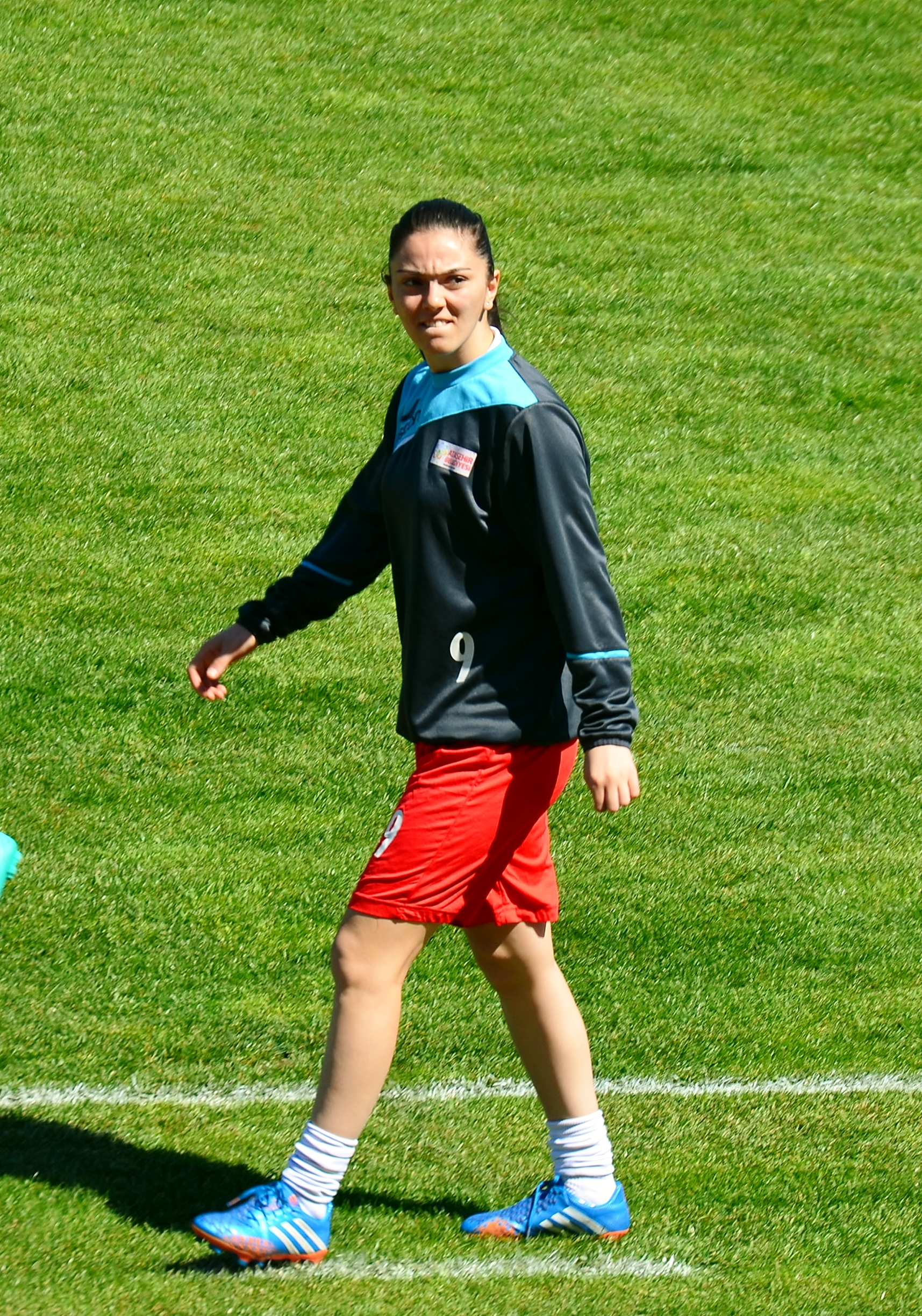 Funda Payan appearing as substitute at 2014-15 play-off match Konak Belediyespor vs Ataşehir Belediyespor